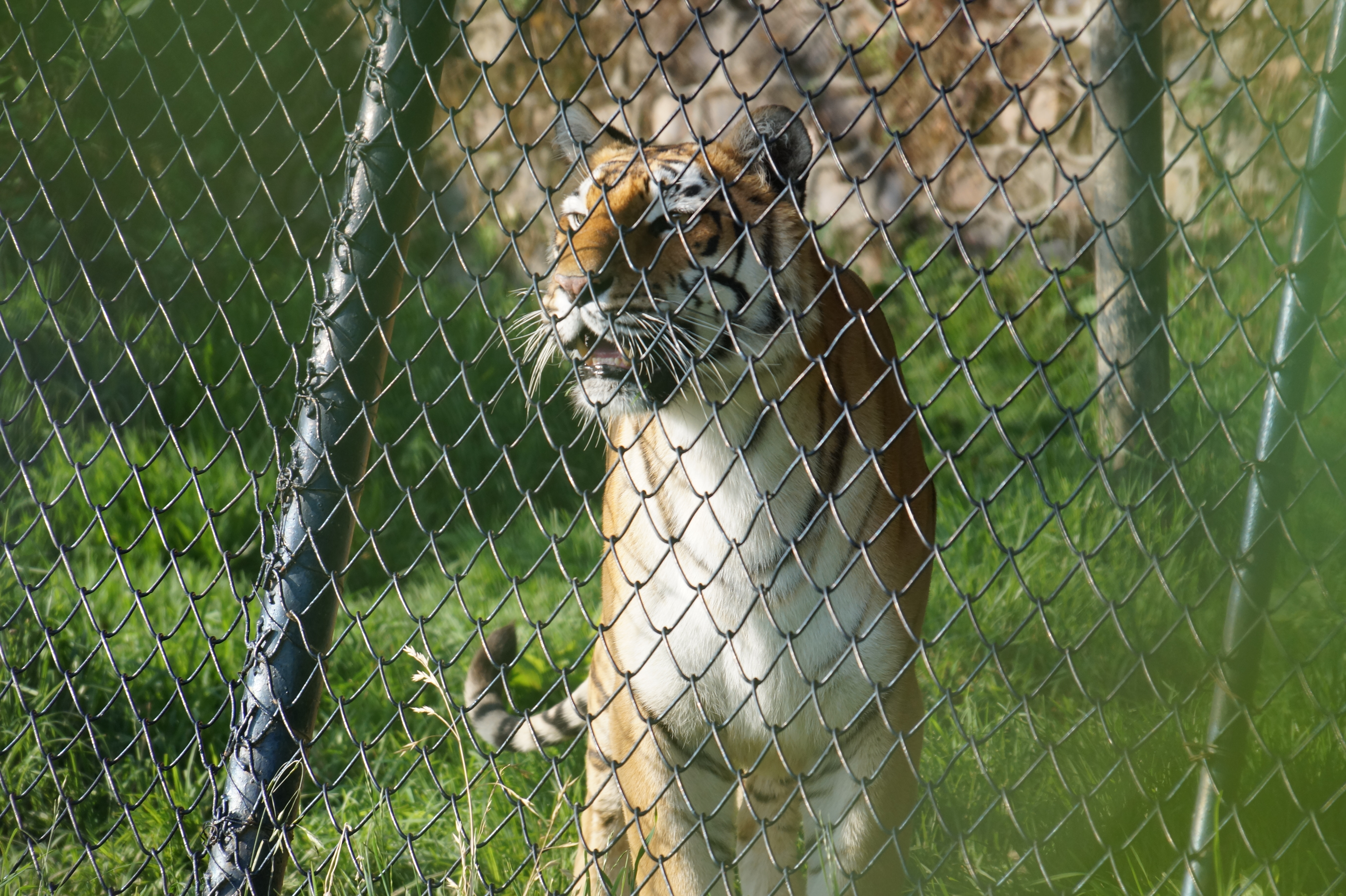 The giant tiger in the cage.